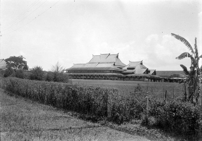 Institute of Technology, Bandung.